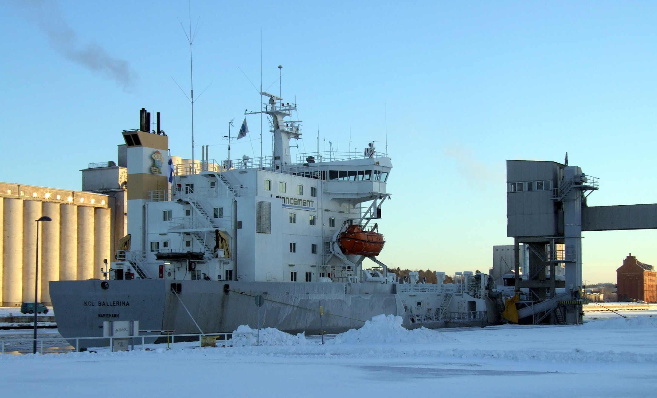 The cement carrier M/V KCL Ballerina in the Toppila harbour in Oulu, Finland.